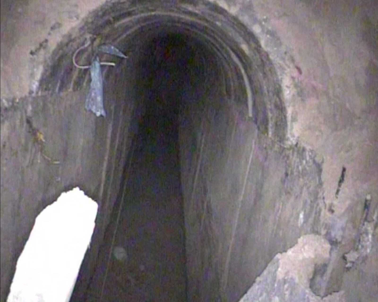 Palestinian tunnel that was uncovered on December 10, 2017, in Israeli side of the border between kibbitz Kissufim and Kibbutz Nirim, located adjacent to the Gaza Strip. The tunnel was over 1 km away from either community. The Jerusalem post